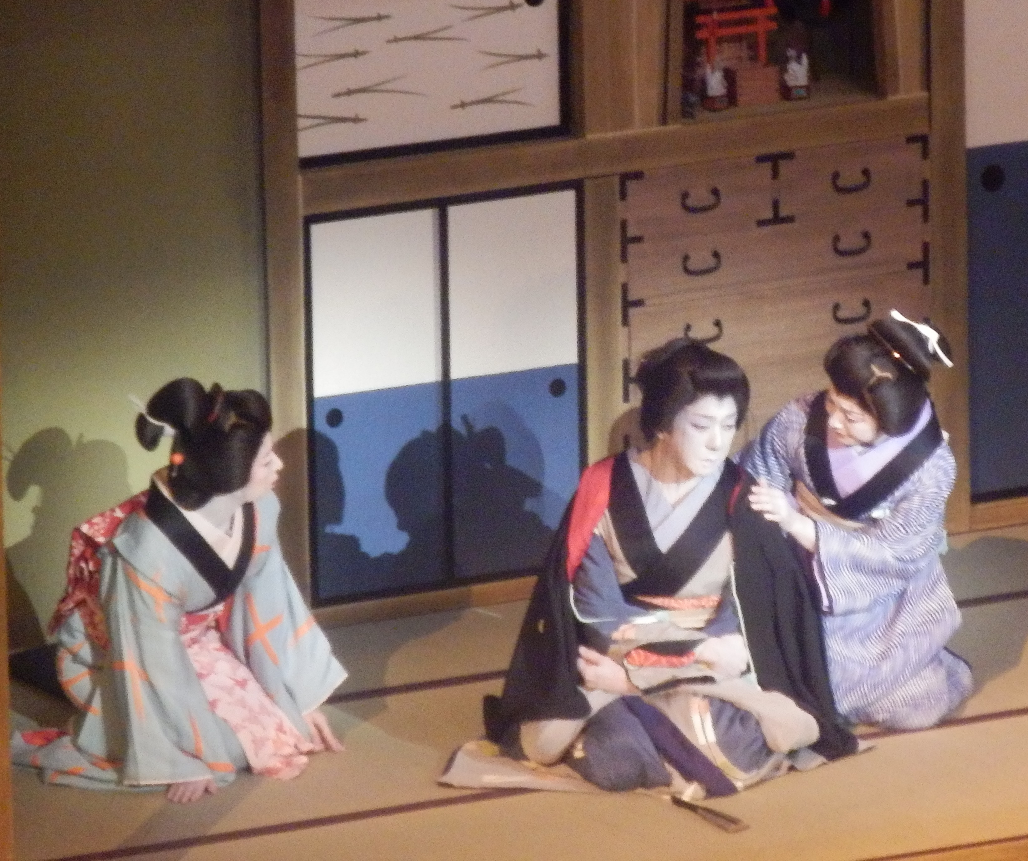 Onnagata actor Bando Tamasaburo V (middle) in a play Nihonbashi